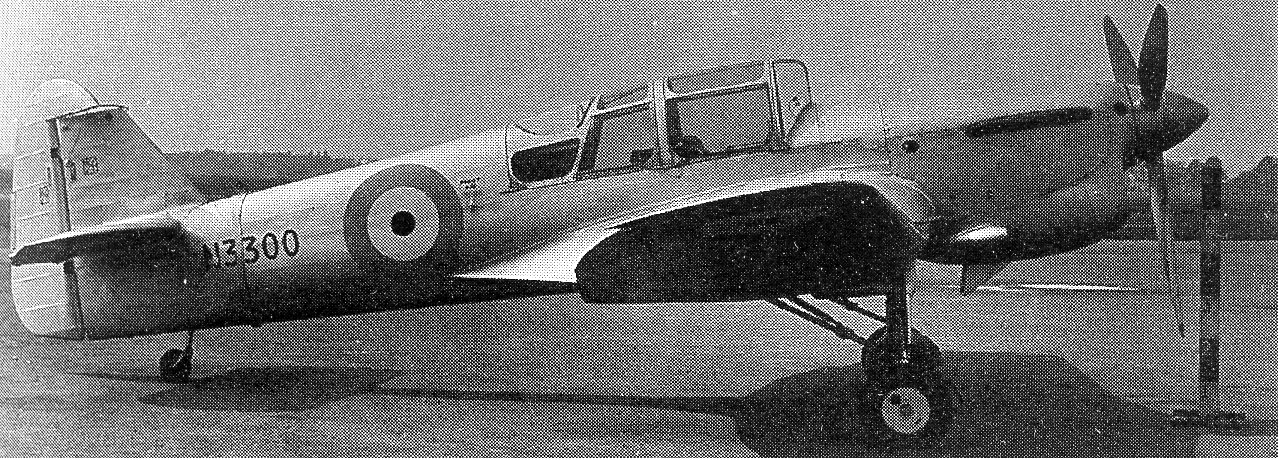 The sole Miles Kestrel as RAF N3300, February 1939